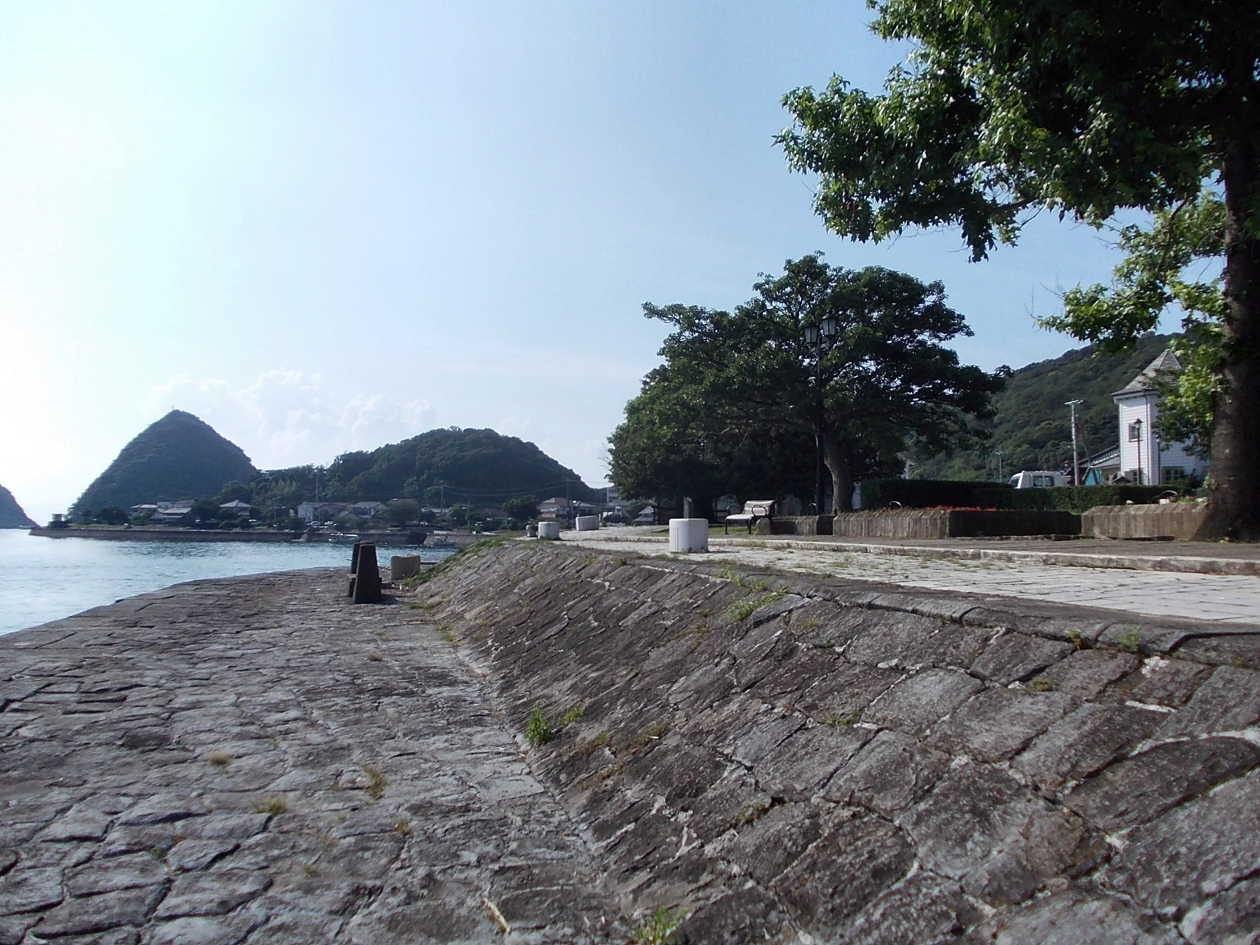 Stone Walls in Misumi West Port.